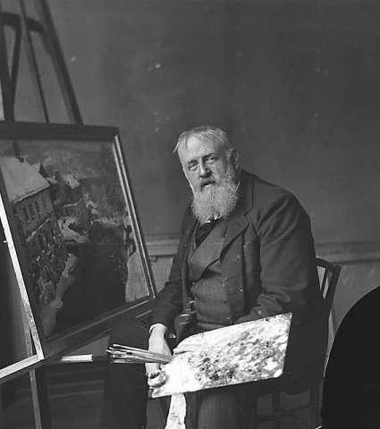 Norwegian painter Frits Thaulow.